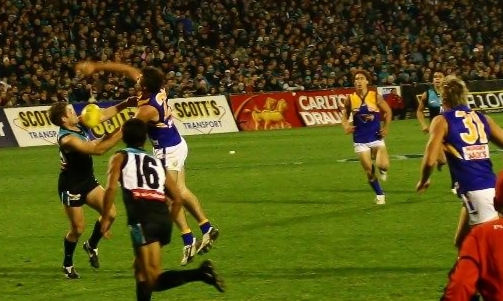 AFL game